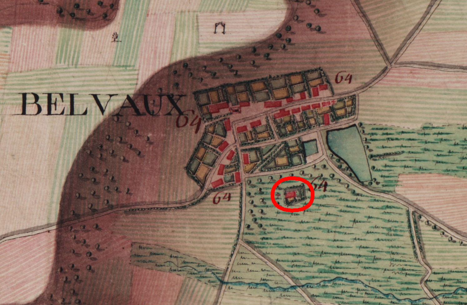 Belvaux on the Ferraris map. Red circle shows isolated farmhouse, thought to be the transformed castle.